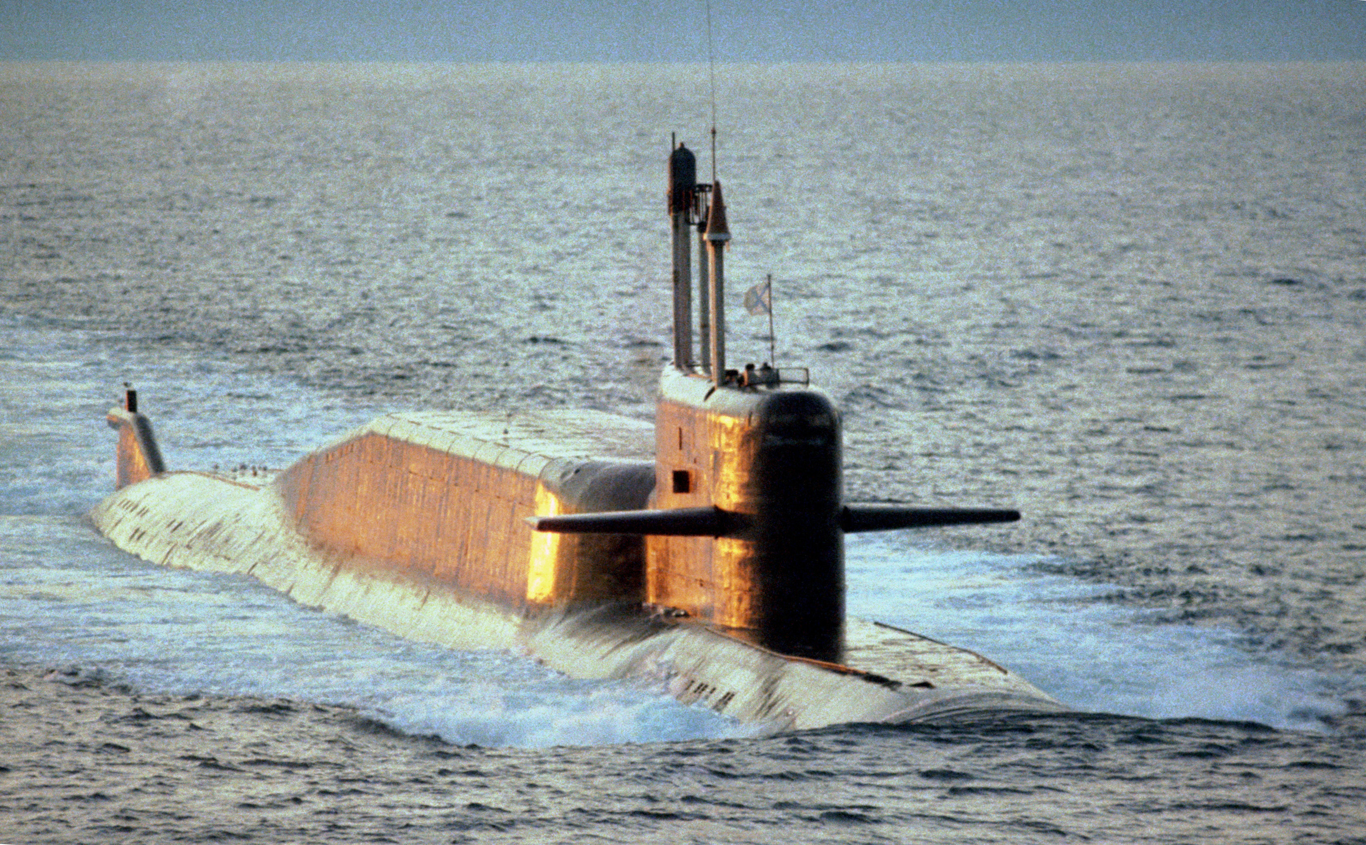 An aerial starboard bow view of a Russian Navy Northern Fleet DELTA IV class nuclear-powered ballistic missile submarine underway on the surface, supposedly this is K-18 "Karelia". Date Shot: 1 Jan 1994